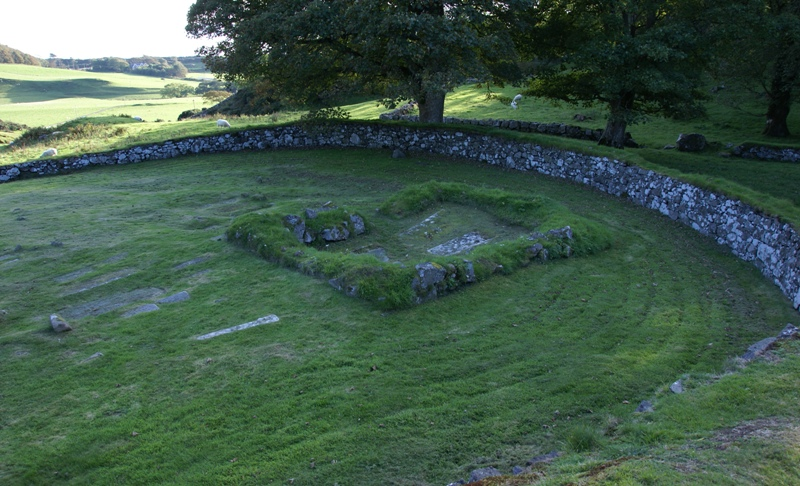 St Blane's Church, Bute, Scotland. Lower churchyard as seen from the north.